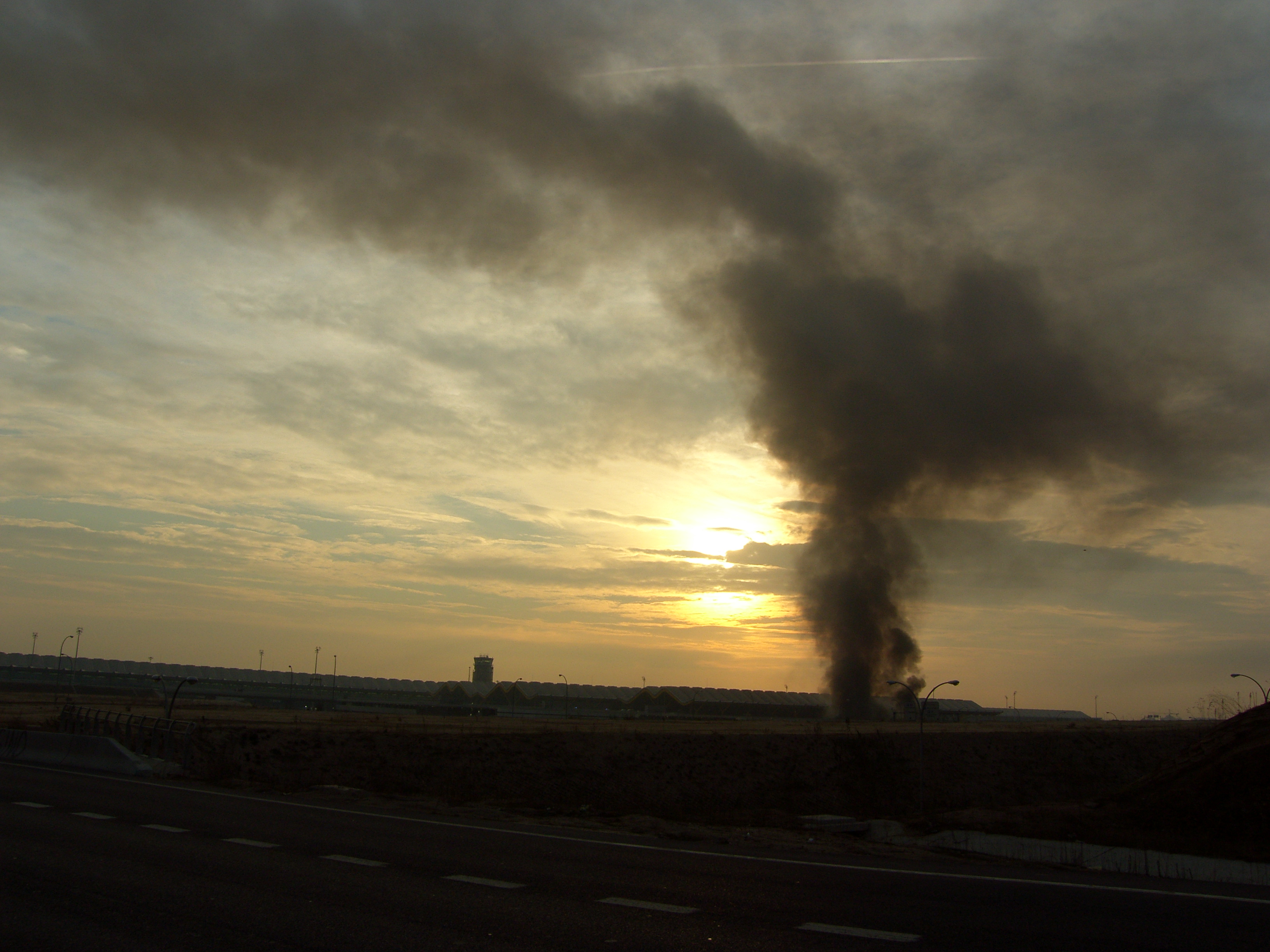 Smoke rising from parking lot D, Barajas Airport following an ETA terrorist attack (30th December 2006)